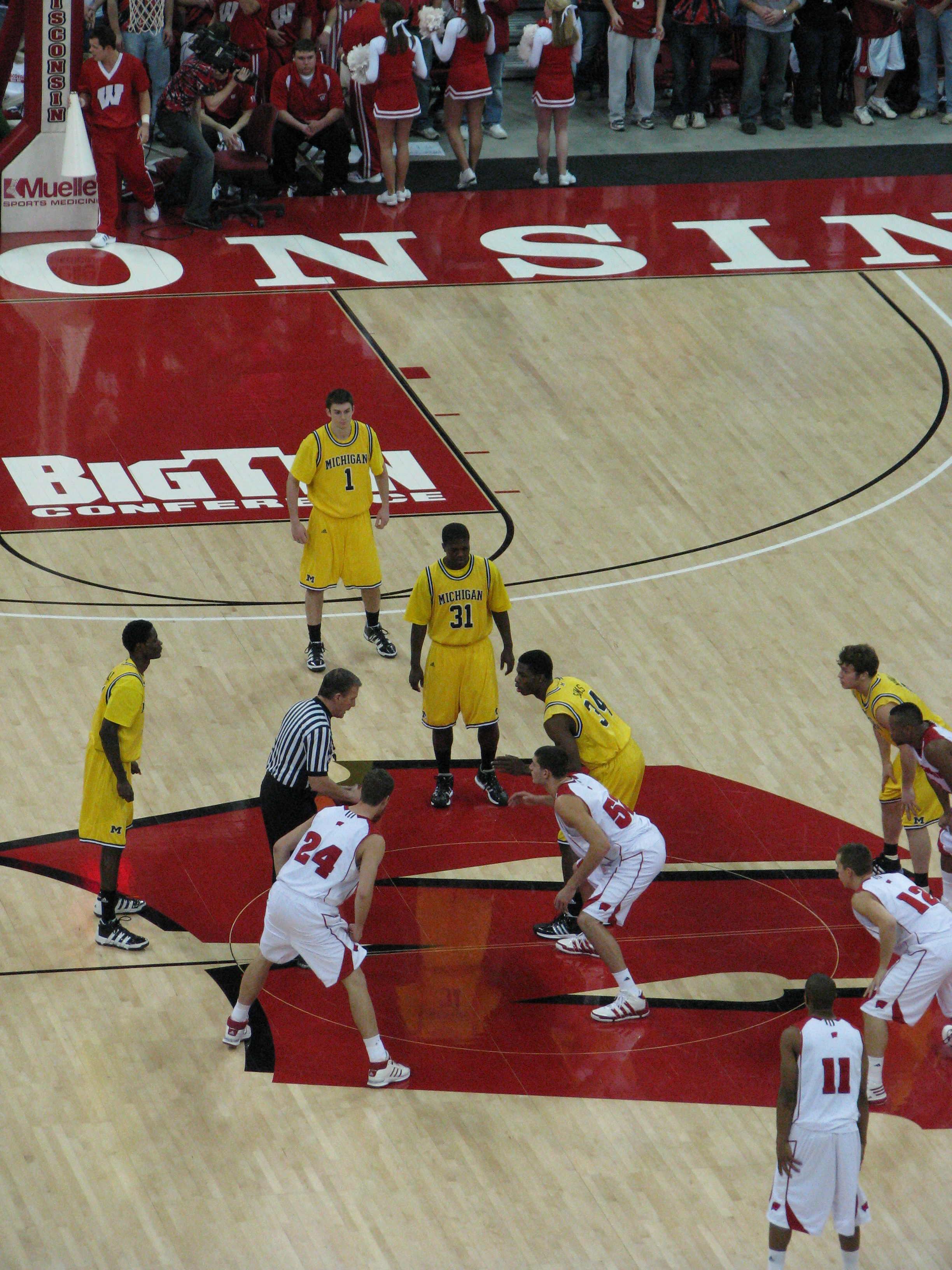 DeShawn Sims prepares for the opening tipoff against Keaton Nankivil